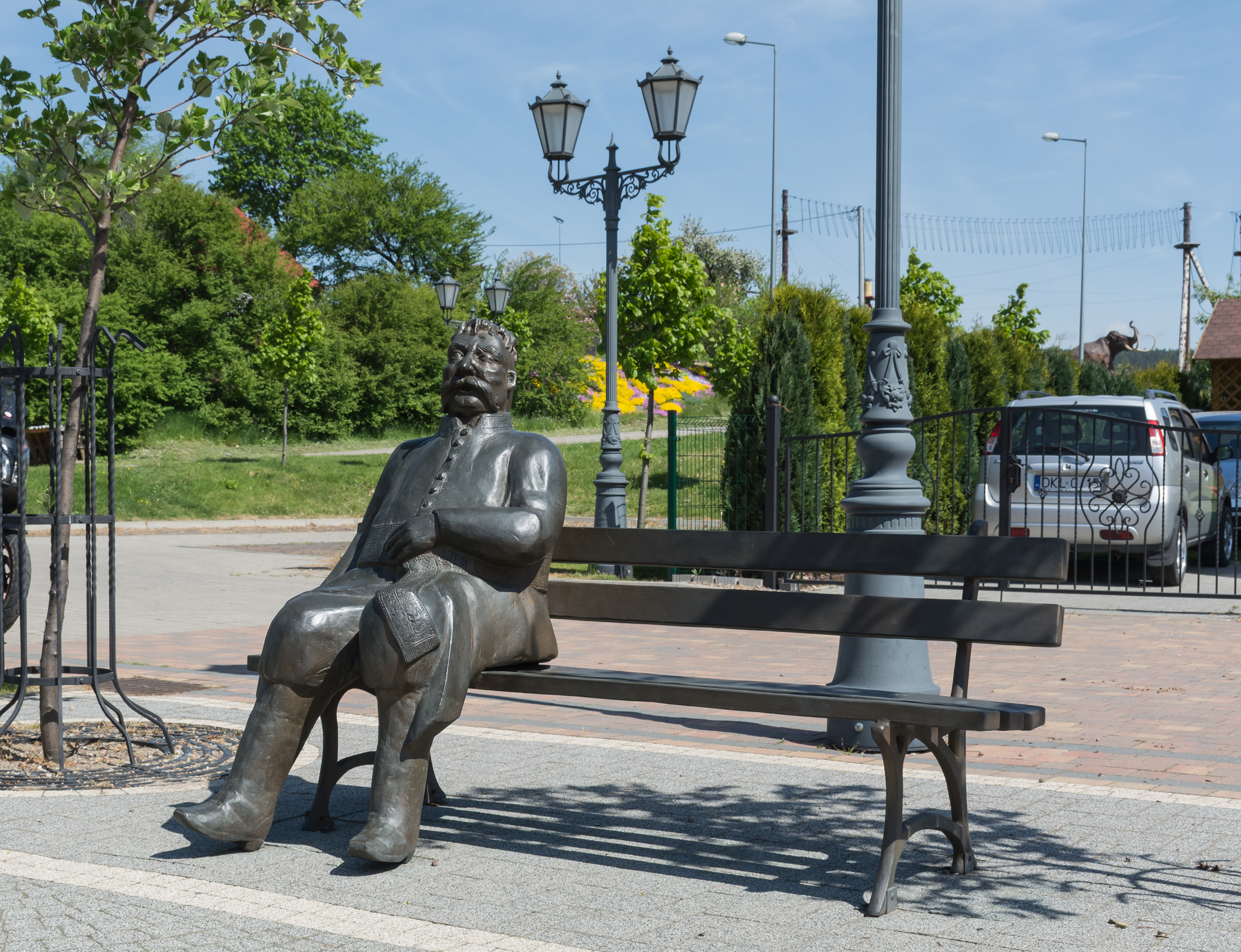 Bench with the Jan Zagłoba in Szczytna